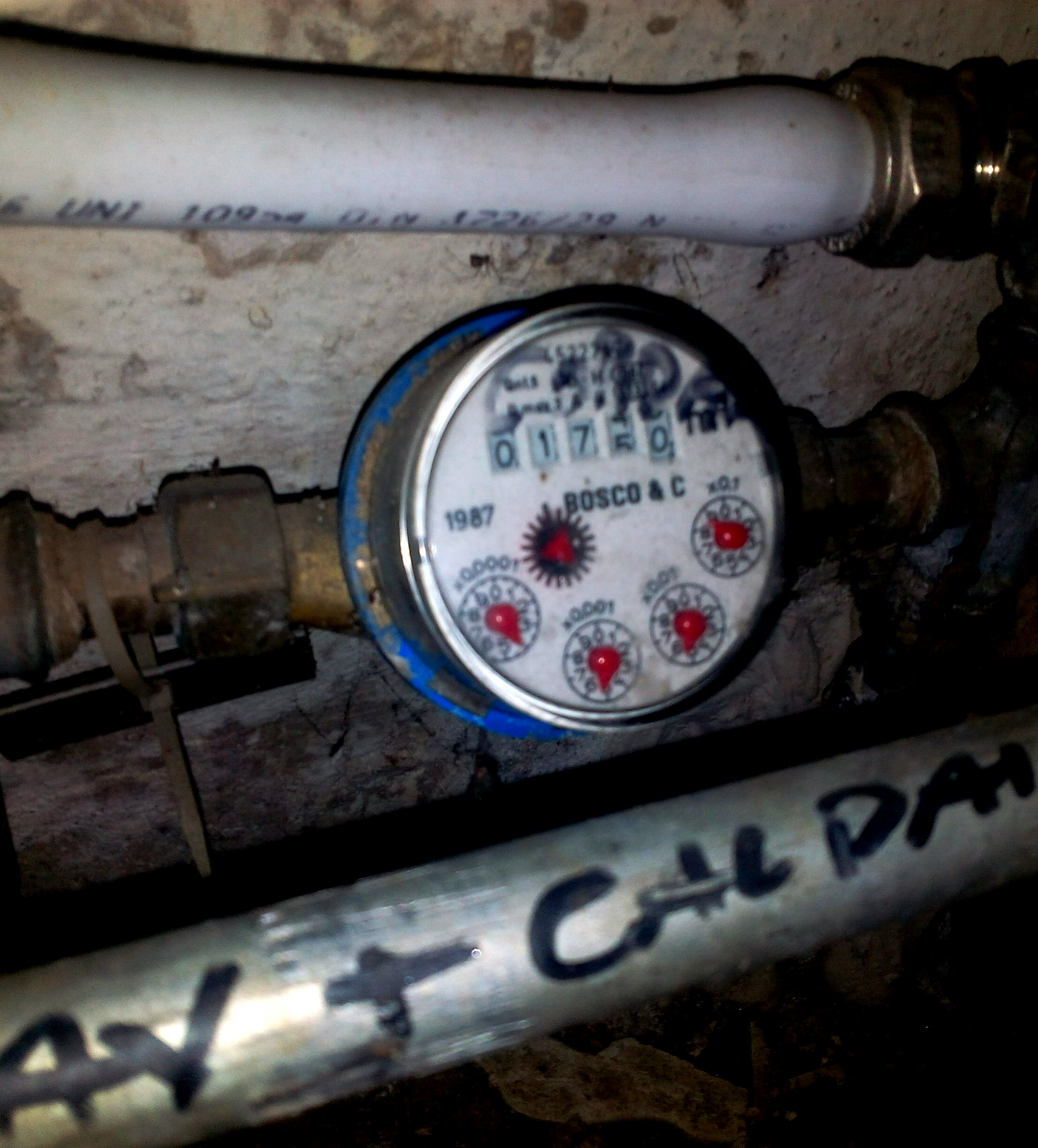 Mechanical water counter